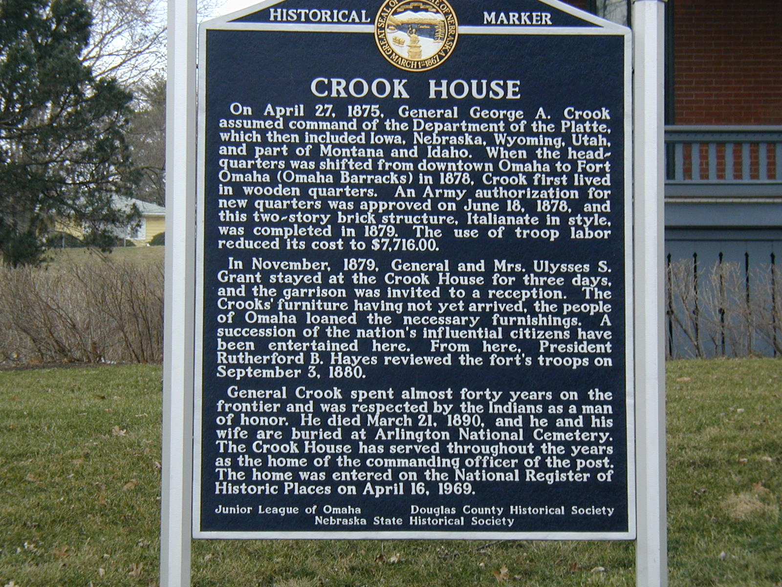 Signage of the General Crook House in Omaha, Nebraska.